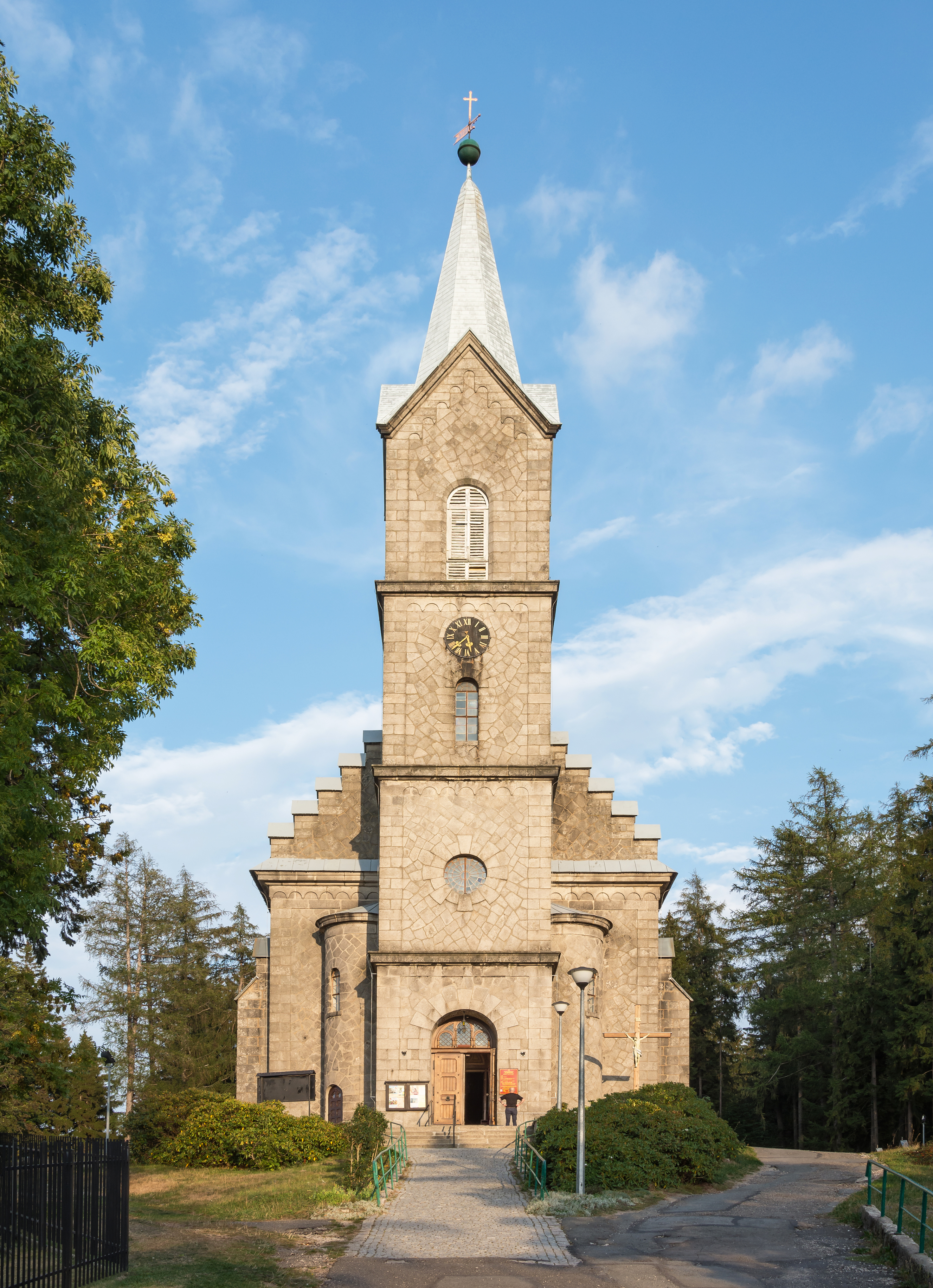 Corpus Christi church in Szklarska Poręba Wikidata has entry Q26967023 with data related to this item.